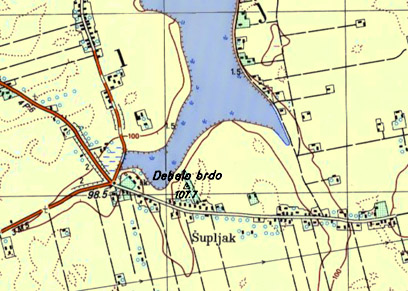 A portion of a topographic map with the location of earthly mound (kurgan) called "Debelo brdo". Used solely for educational purposes, to illustrate a historic landscape feature, without unobvious or unpublic detail - such as place names, boundaries and cartographic elements. (Although the map itself was not in public domain, it had no proper copyright notice and is old enough not to be considered offence of copyright.)